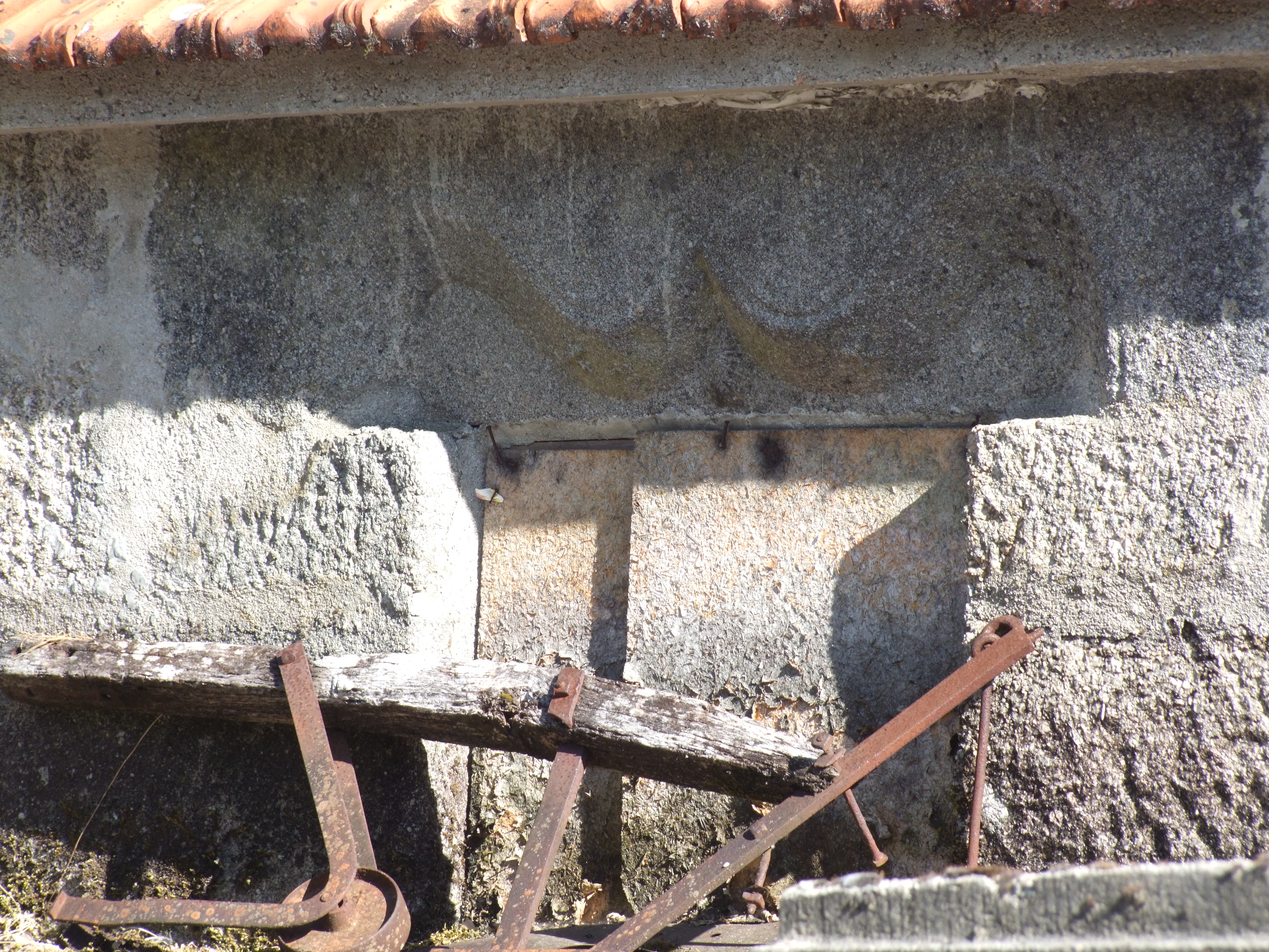 Manueline Lintel at Assureira, Castro Laboreiro, Melgaço, Portugal.